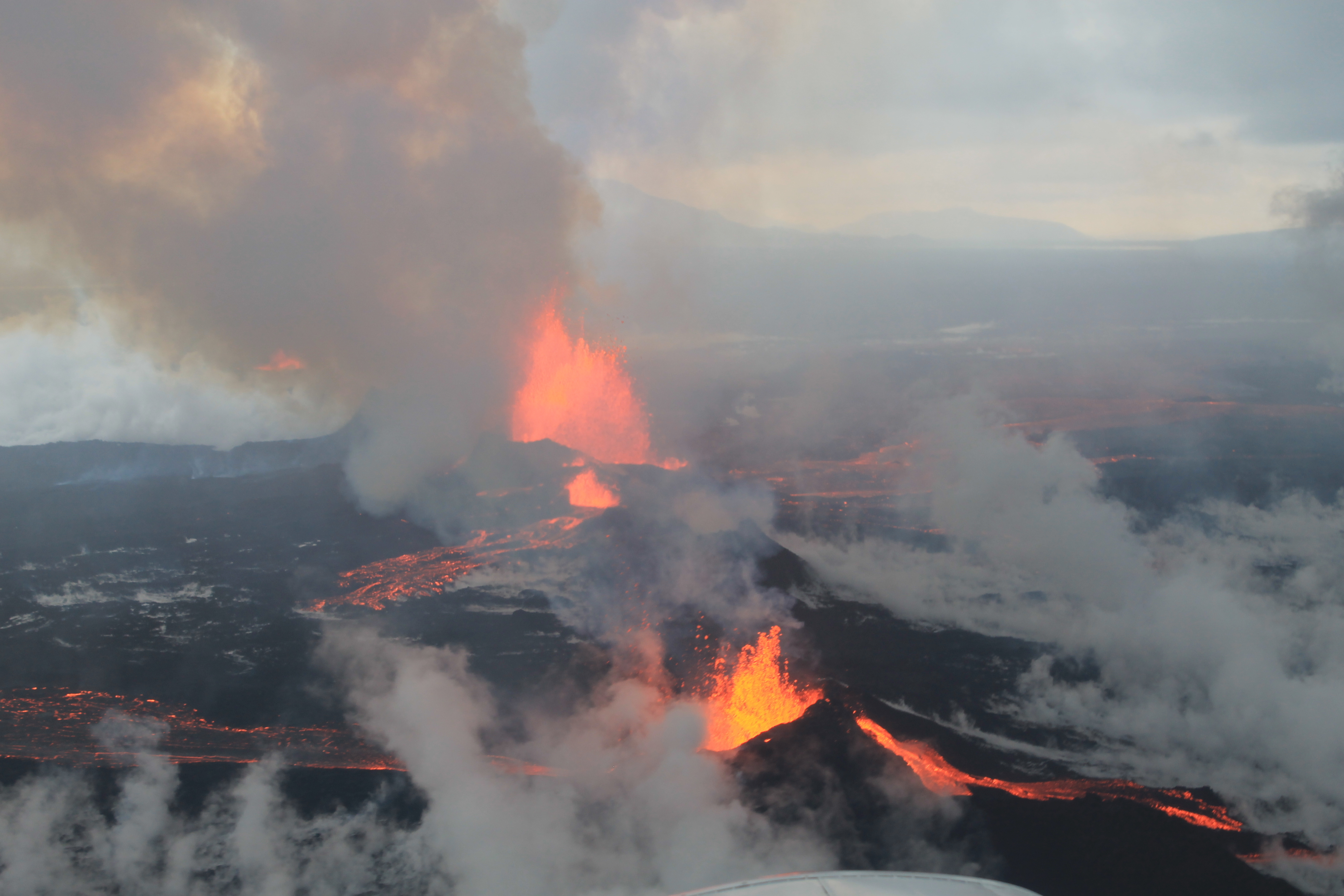 Pictures taken by Peter Hartree between 14.30 and 15.00 on September 4th 2014. I'm sorry for the less than ideal quality of these - this wasn't a professional photo shoot. All photos are unedited. I have a bunch more (fairly similar) shots - if you'd like to see them, write to . Many thanks to pilot Siggi G for the ride.